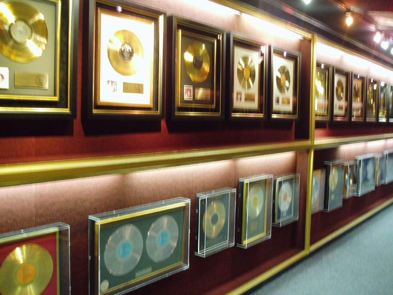 Records in Elvis Trophy Room